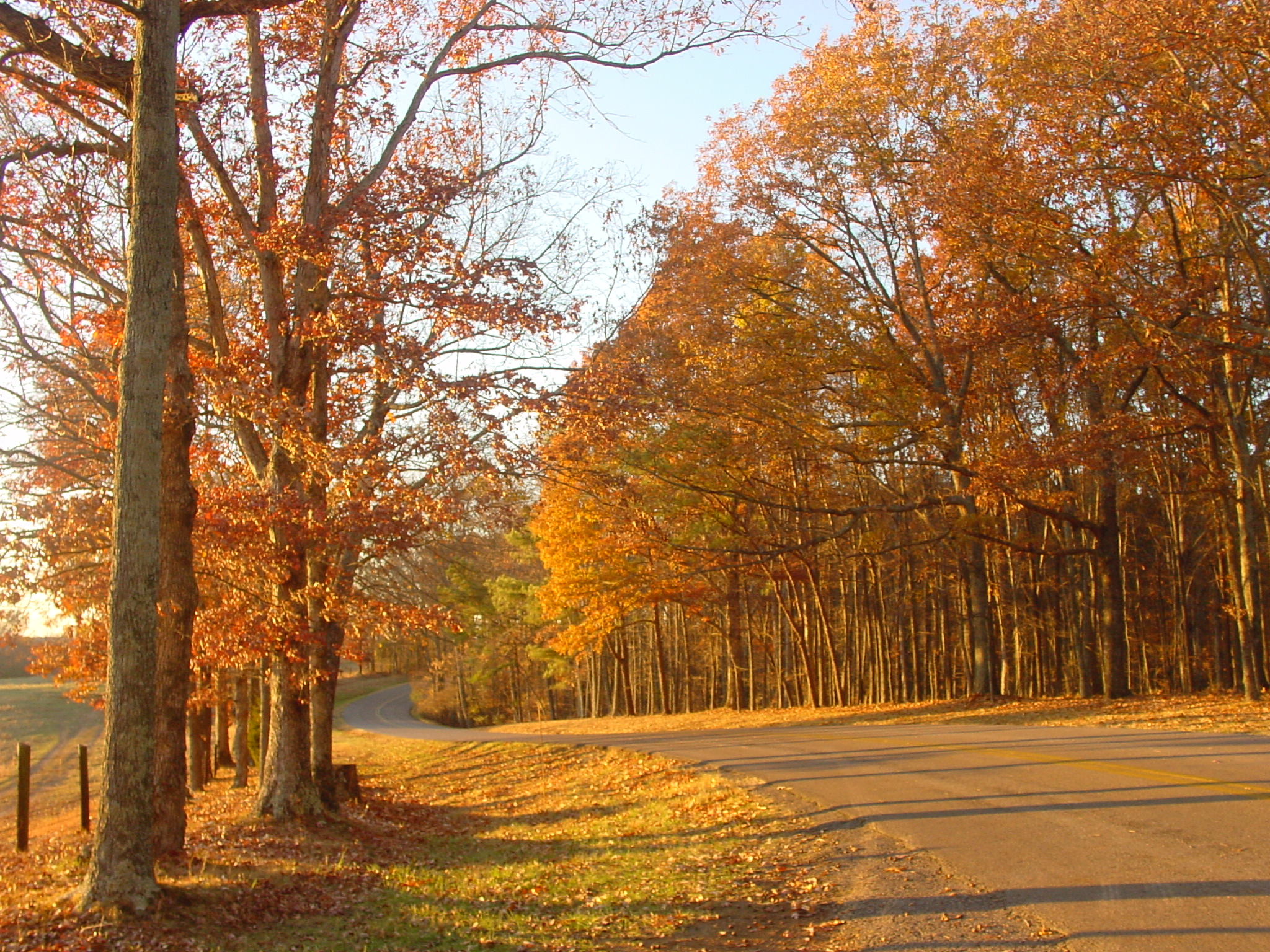 Roadway to Lindsey Lake in David Crockett State Park, located a half mile west of Lawrenceburg, Tennessee.